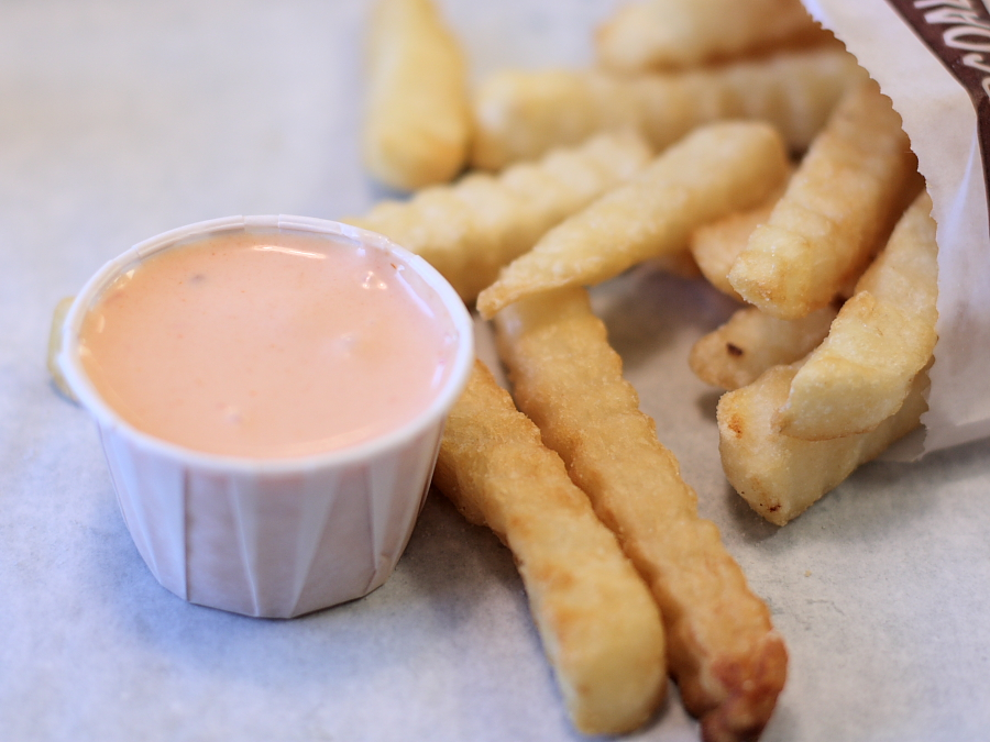 A typical container of fry sauce from a chain of hamburger restaurants in Salt Lake City, Utah.